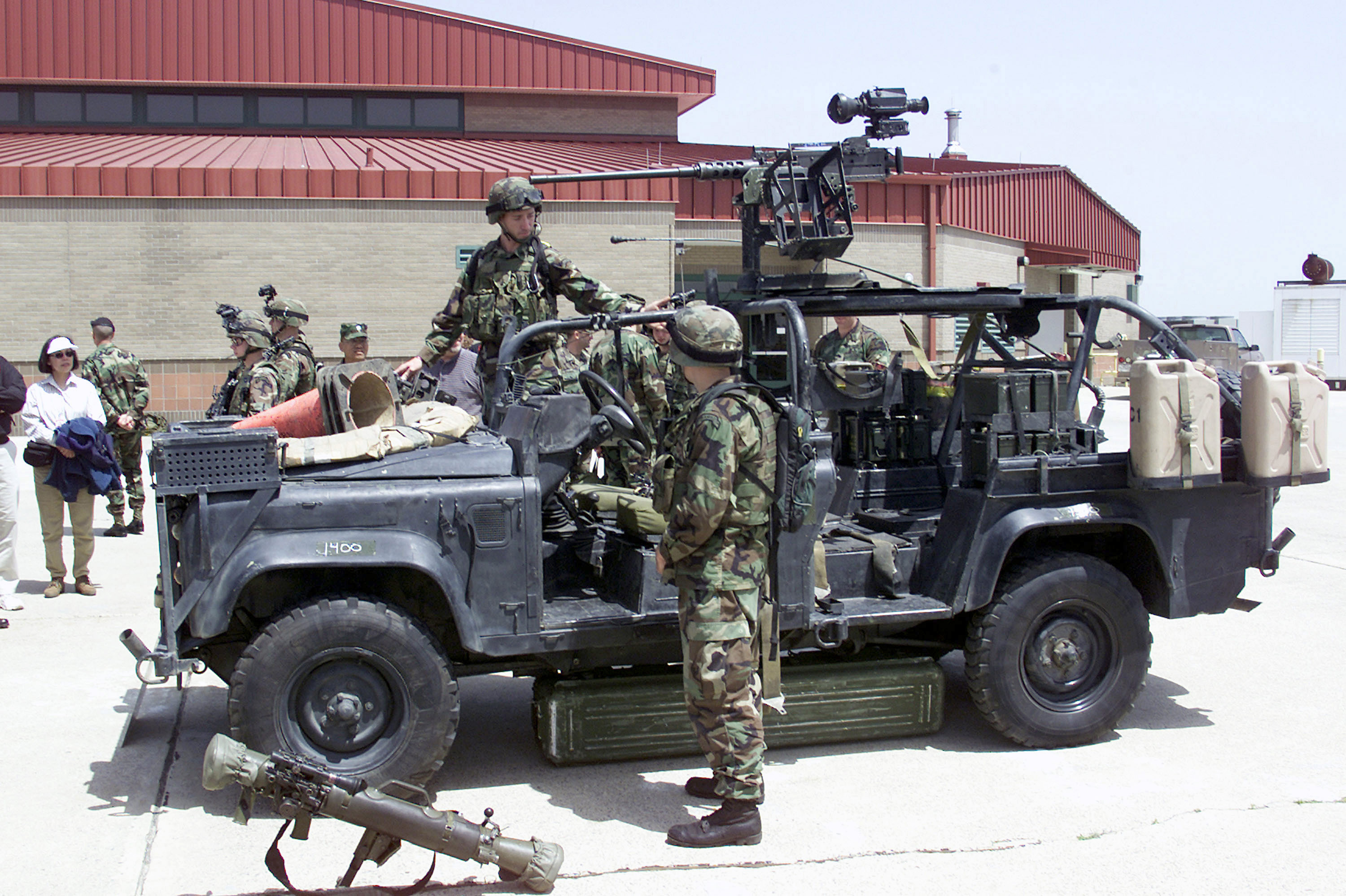 A U.S. Army Land Rover Defender Ranger Special Operation Vehicle (RSOV) from B Company, 1st Battalion, 75th Ranger Regiment, with an .50 RAMO M2HB-QCB machine gun mounted on top. The equipment is on display for students from the National War College, April 19, 2001.